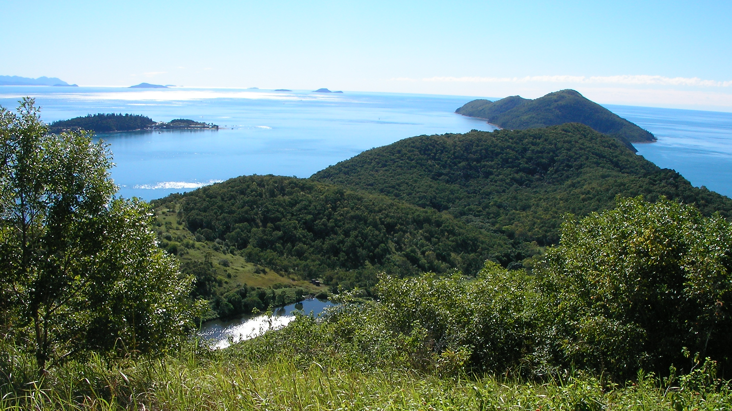 On the southern end of South Molle Island, Queensland, Australia looking north-north-west at Daydream Island (on the left) and North Molle Island (right, the water gap - and Mid Molle - being obscured by South Molle's Lamond Hill). Camera location is west of South Molle's "Mount" Jeffreys, on a trail heading southwest to Sandy Bay. South Molle's resort is on the shore of Bauer Bay; one can see the west half (or third) of the bay on the right edge of this photo.